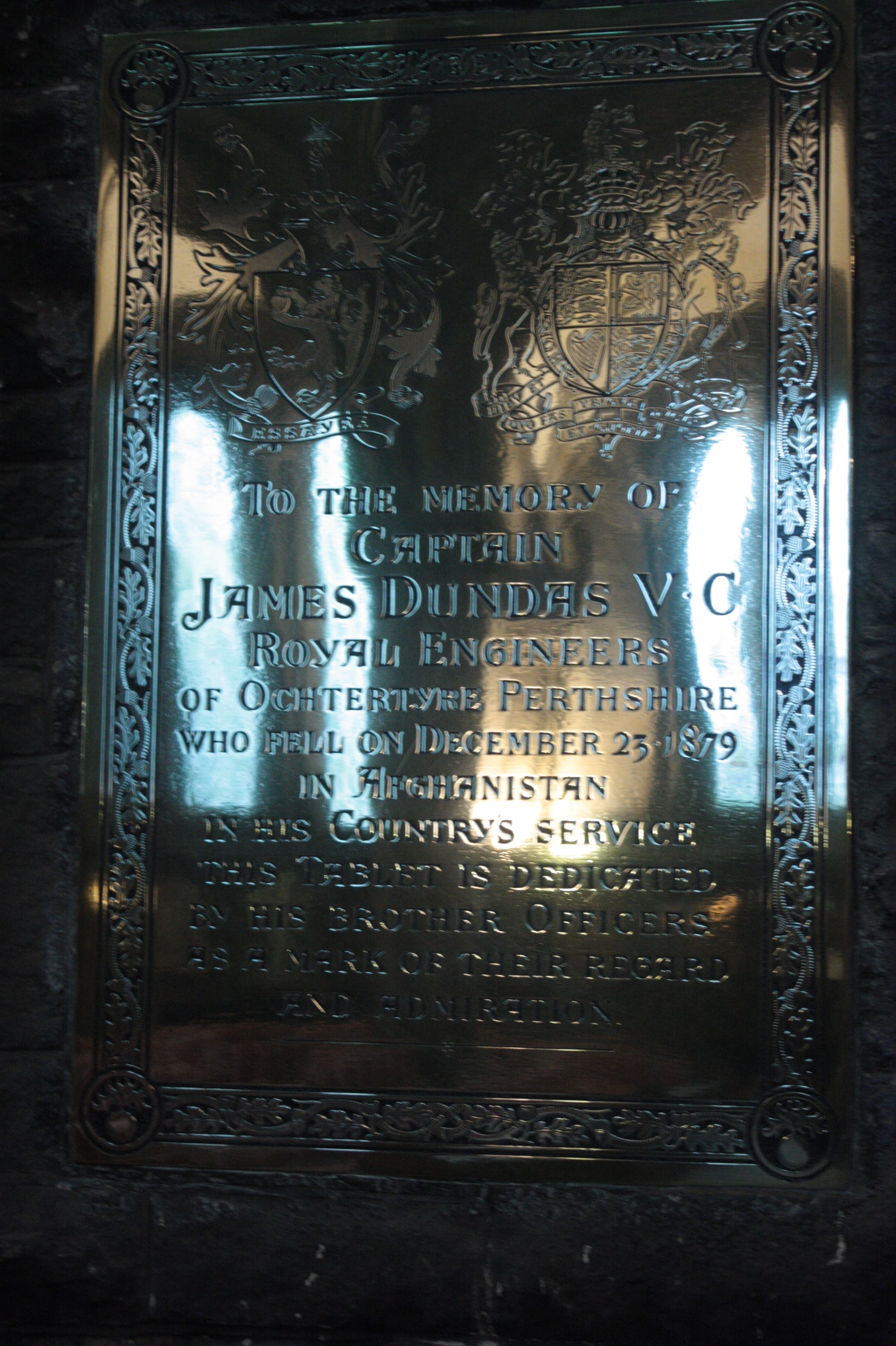 The memorial plaque to Robert Dundas VC in St Marys Episcopal Cathedral in Edinburgh